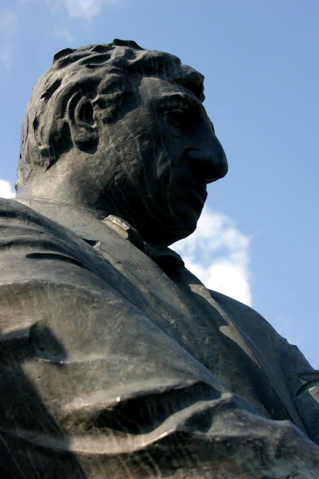 Մհեր Մկրտչյանի արձանը Գյումրու թատերական հրապարակում The monument of Mher Mkrtchyan in Gyumri